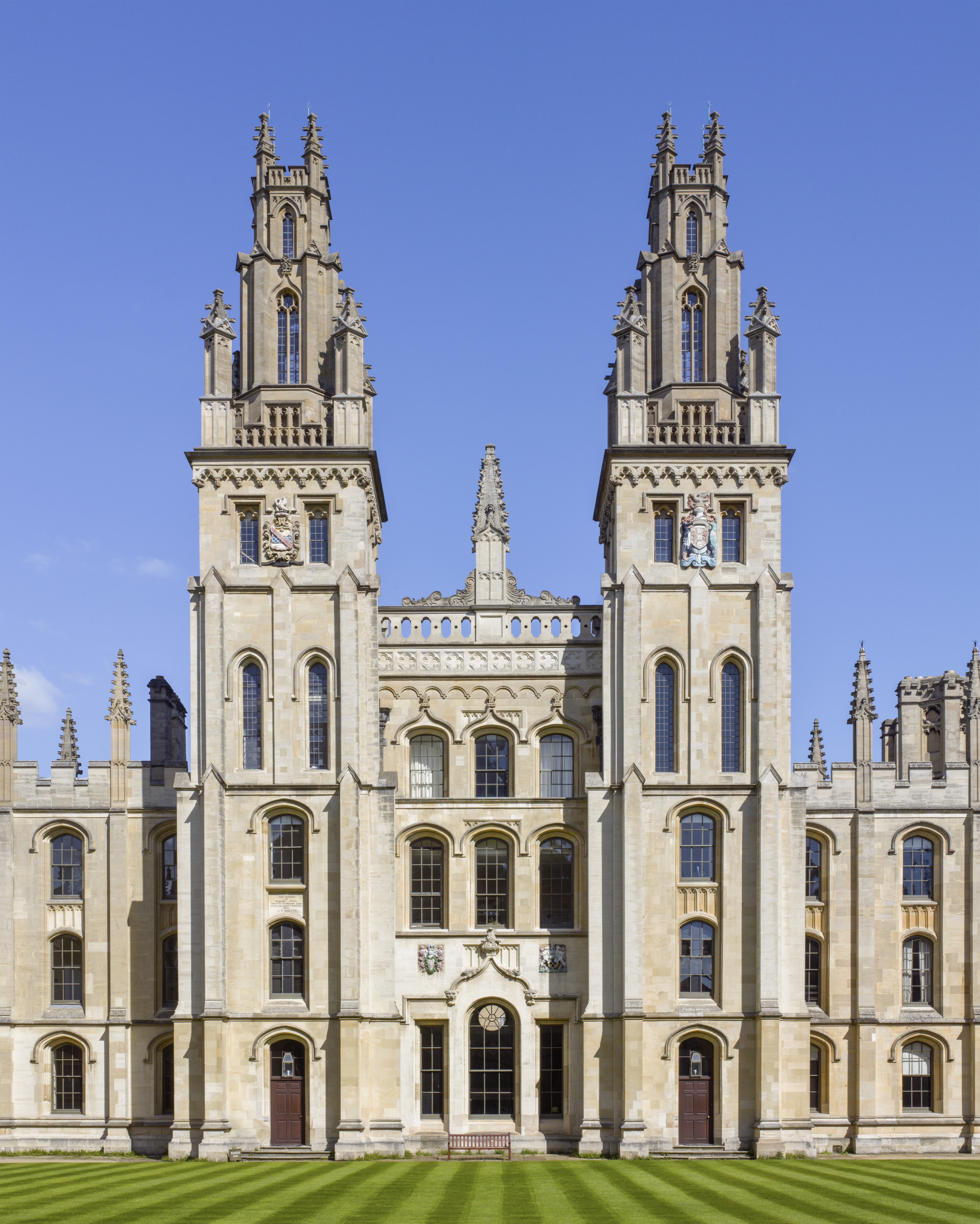 Hawksmoor Towers, All Souls College (Oxford University) founded in 1438, is a graduate student-only college. (In 2012 there were a total of eight graduates).